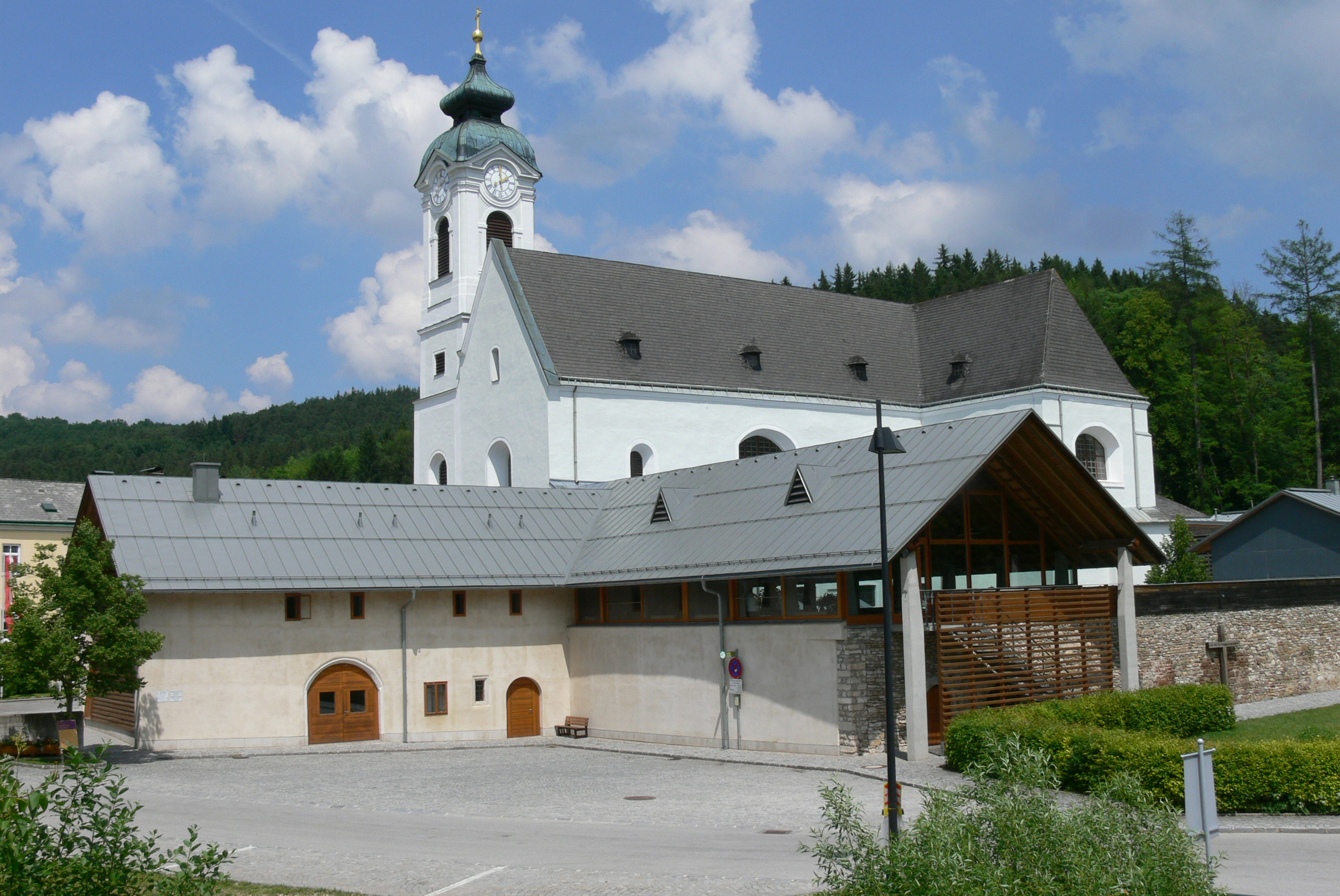 Basilica of Kleinmariazell ( Lower Austria ). Church and monastery buildings.